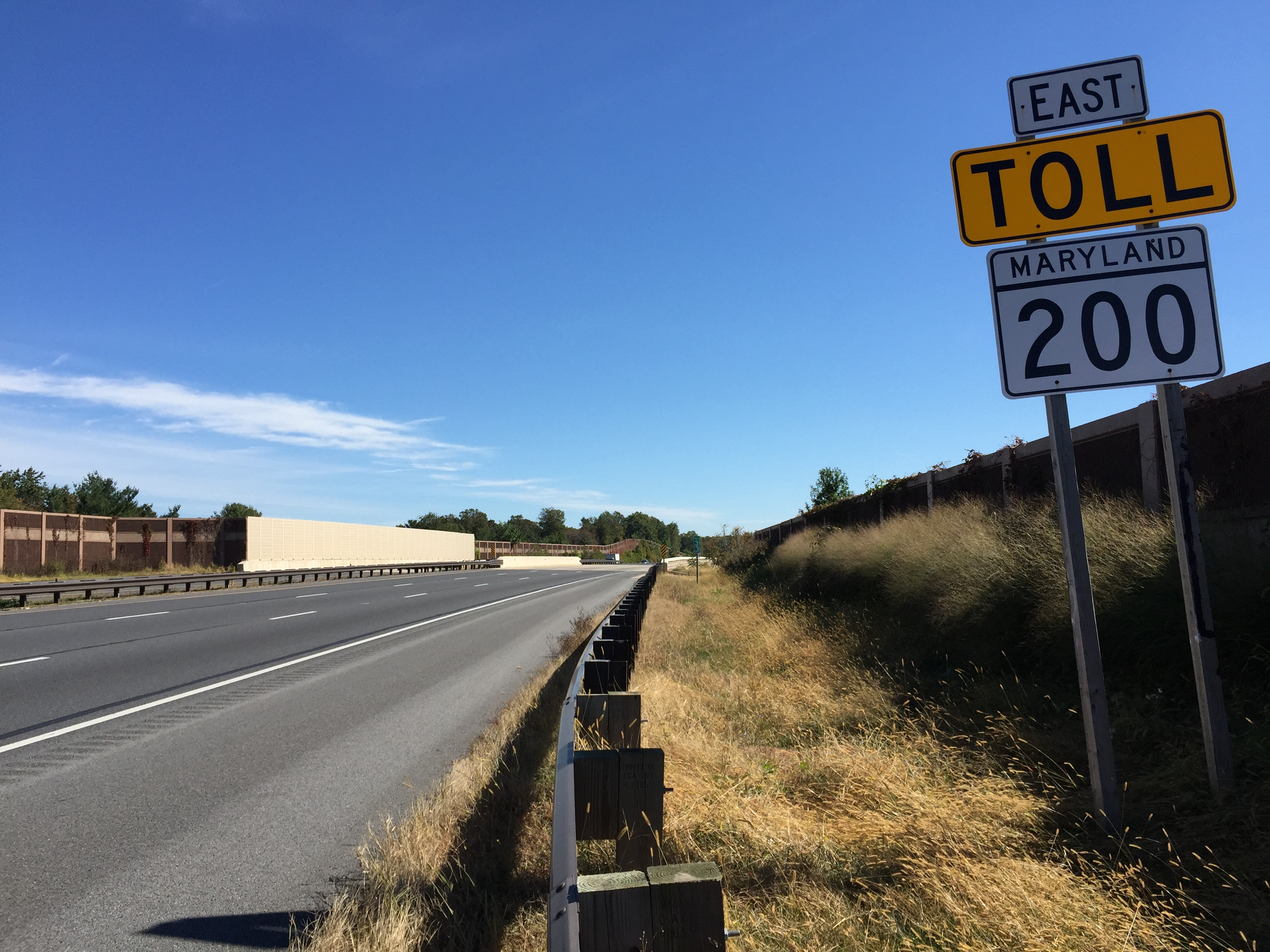 View east along Maryland State Route 200 (Intercounty Connector) at Shady Grove Road in Redland, Montgomery County, Maryland